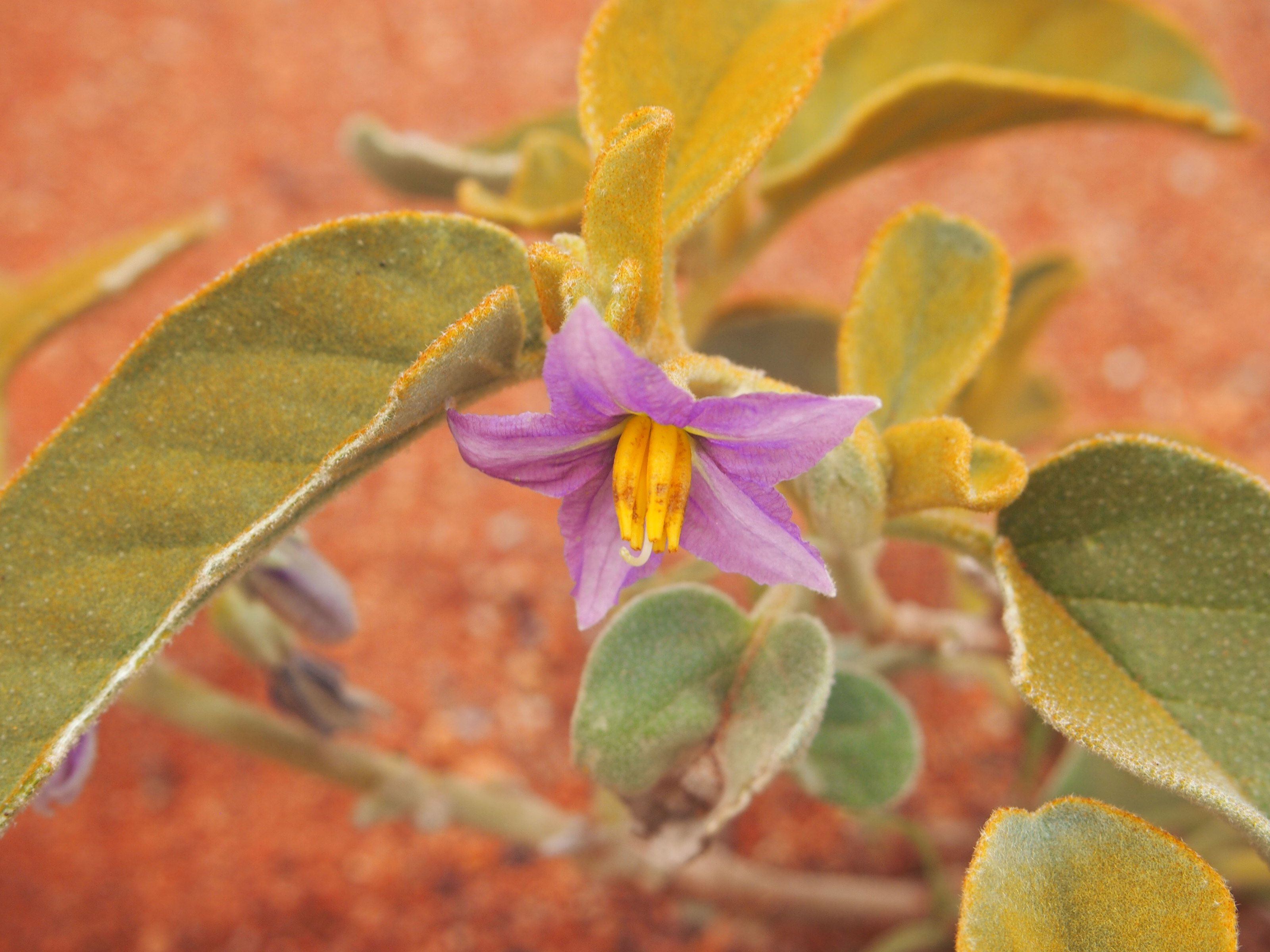 Solanum centrale in flower